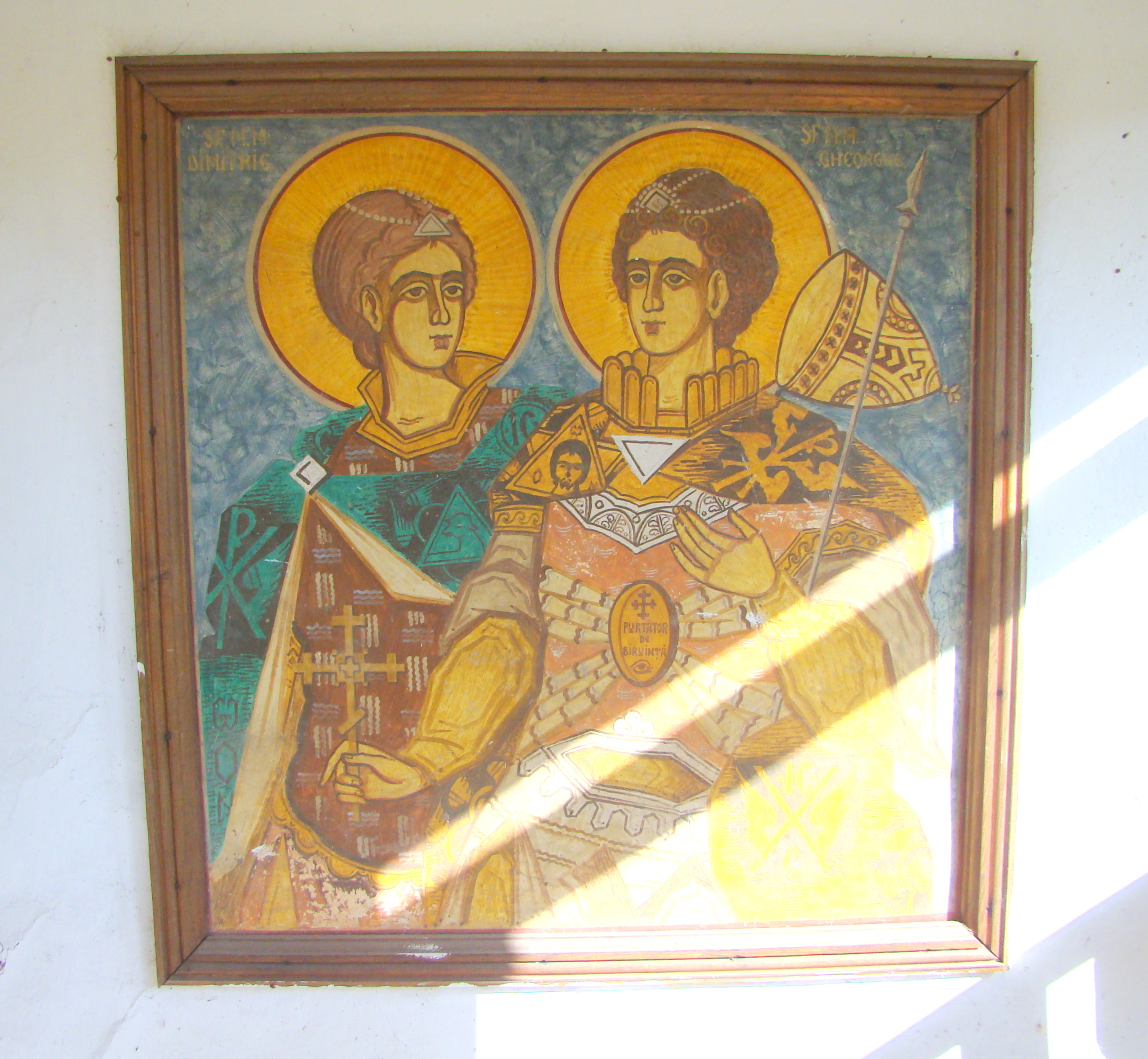 Saint George's wooden church in Valea Mânăstirii, Gorj county, Romania